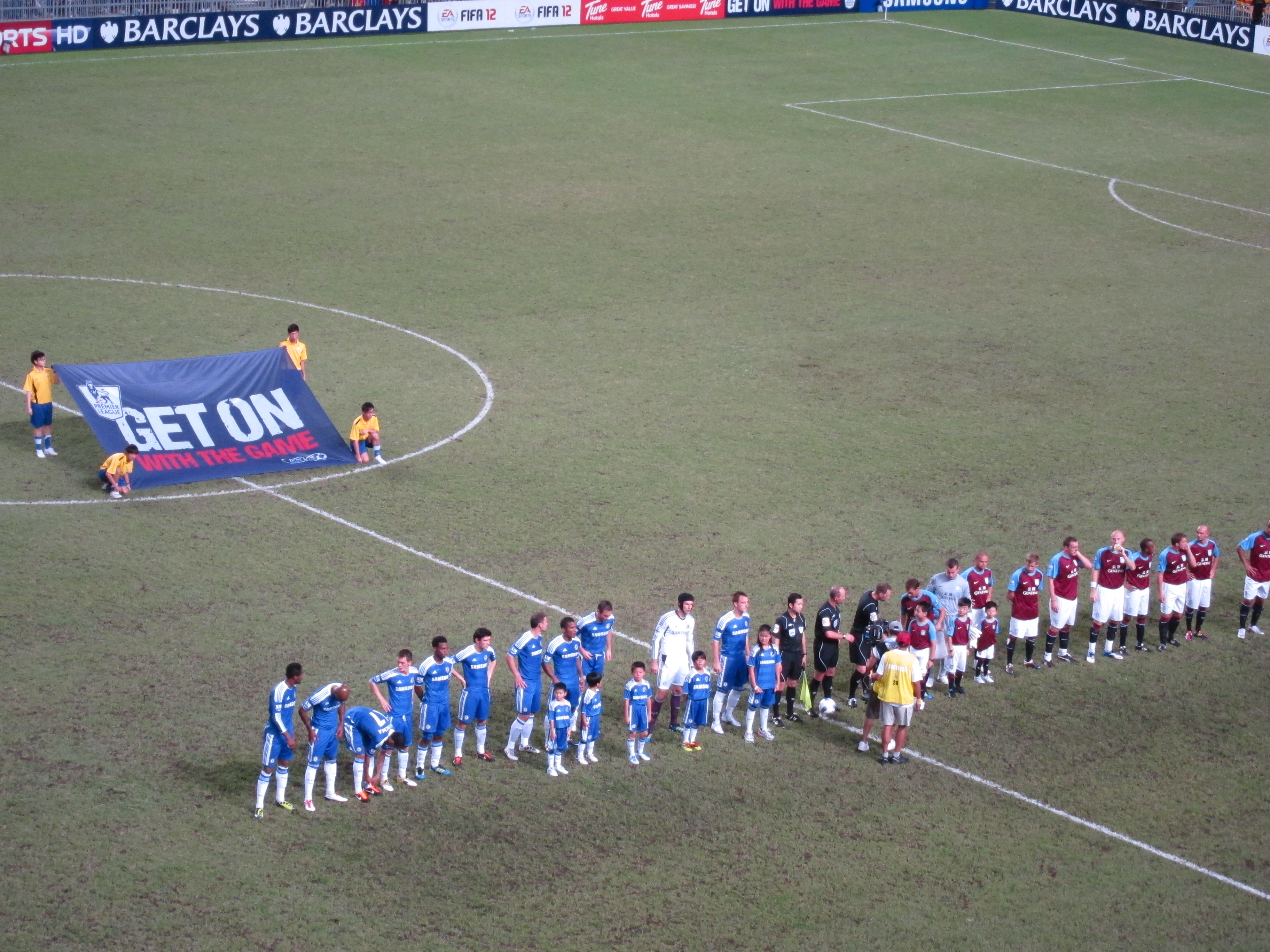 2011 Barclays Asia Trophy Final match - Chelsea vs Aston Villa 中文（香港）: 2011年巴克萊亞洲錦標賽決賽 - 冠軍戰 車路士 對 阿士東維拉